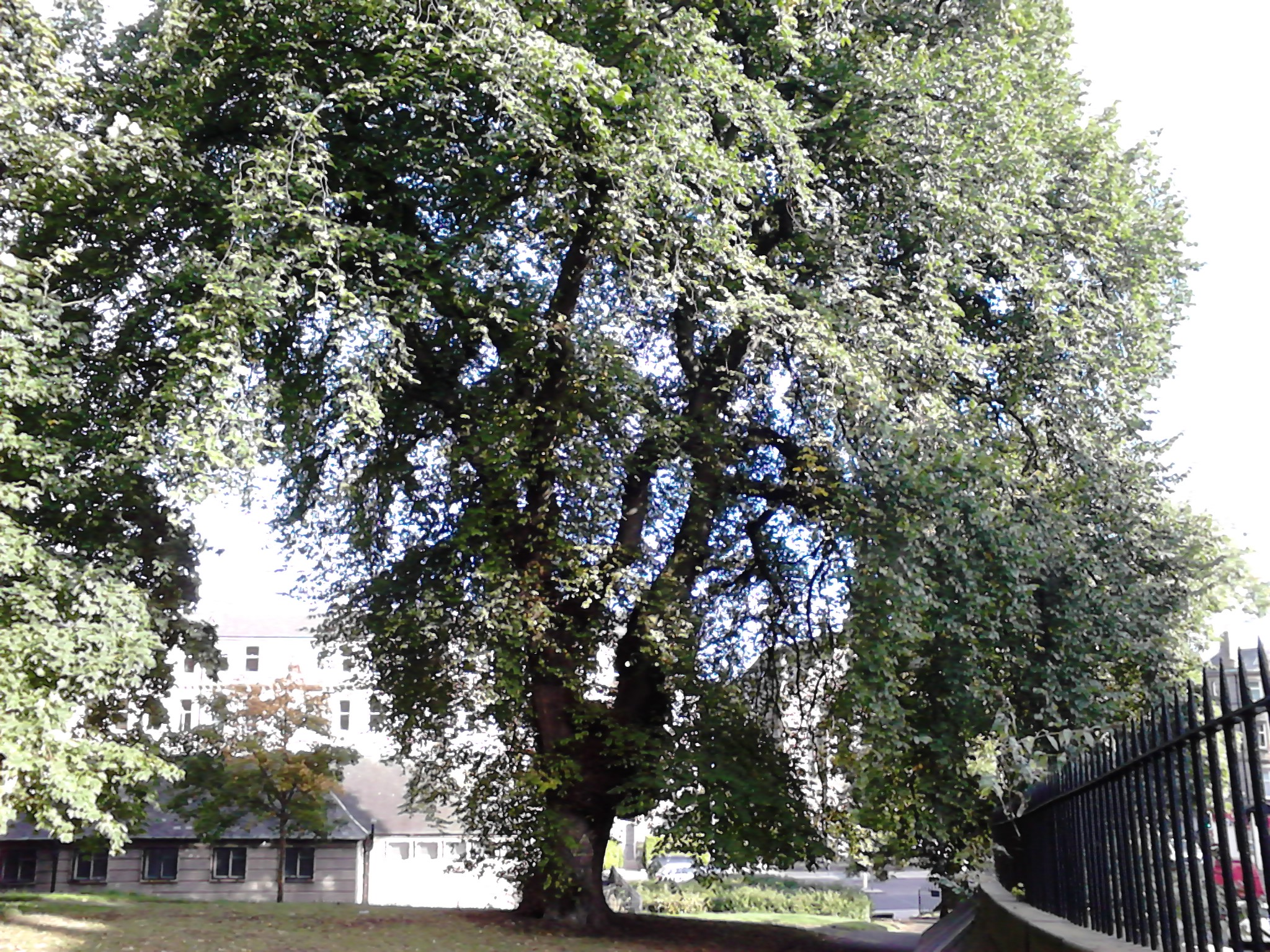 Ulmus glabra. Burr on trunk. Royal Terrace Gardens, Edinburgh